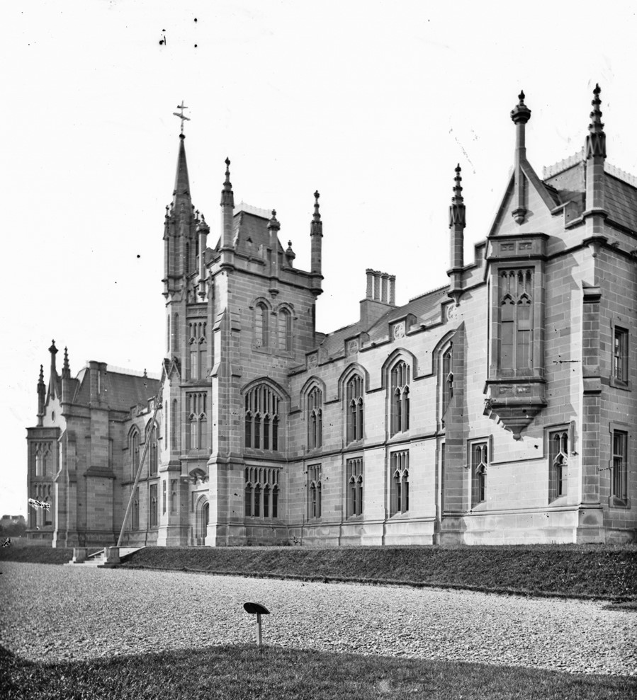 A Gothic masterpiece to end July and welcome August! This looks very institutional today but may have been the height of architectural fashion in its day? Where is it and who built it? [/photos/8468254@N02/ Derangedlemur] quickly answered the first question - it's Magee College (Ulster University) in Derry . The answer to the second question is that it's likely within a decade or so of the college's opening - in 1865.... Photographers: Frederick Holland Mares, James Simonton Contributor: John Fortune Lawrence Collection: Stereo Pairs Photograph Collection Date: Catalogue range c.1860-1883. Possibly after c.1865. NLI Ref: STP_1944 You can also view this image, and many thousands of others, on the NLI’s catalogue at